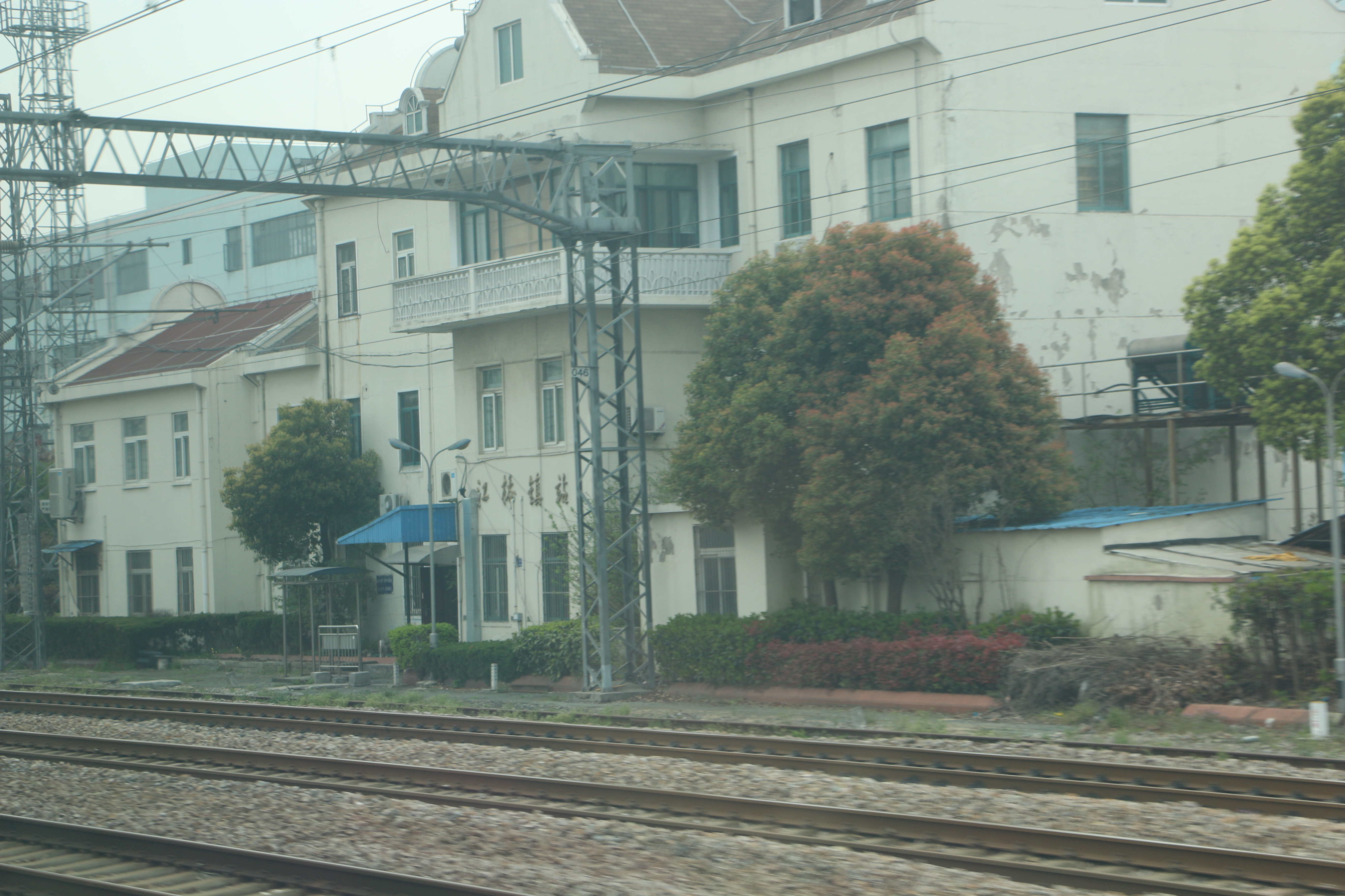 201604 Jiangqiaozhen Station